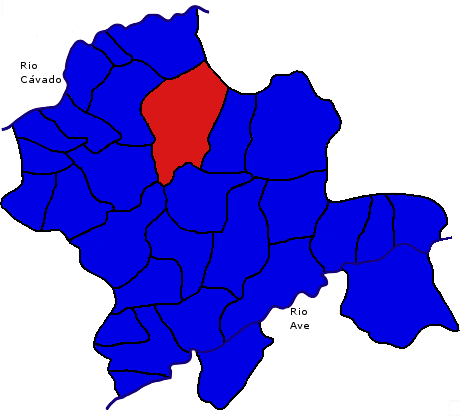 Map of Rendufinho in Povoa de Lanhoso, Portugal